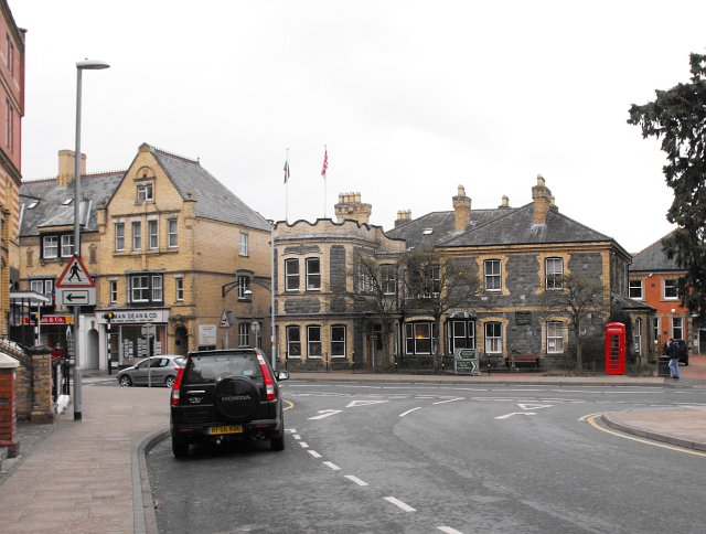 Junction of South Crescent with Temple Street With the Information Bureau straight ahead and Oxford Chambers on the left.